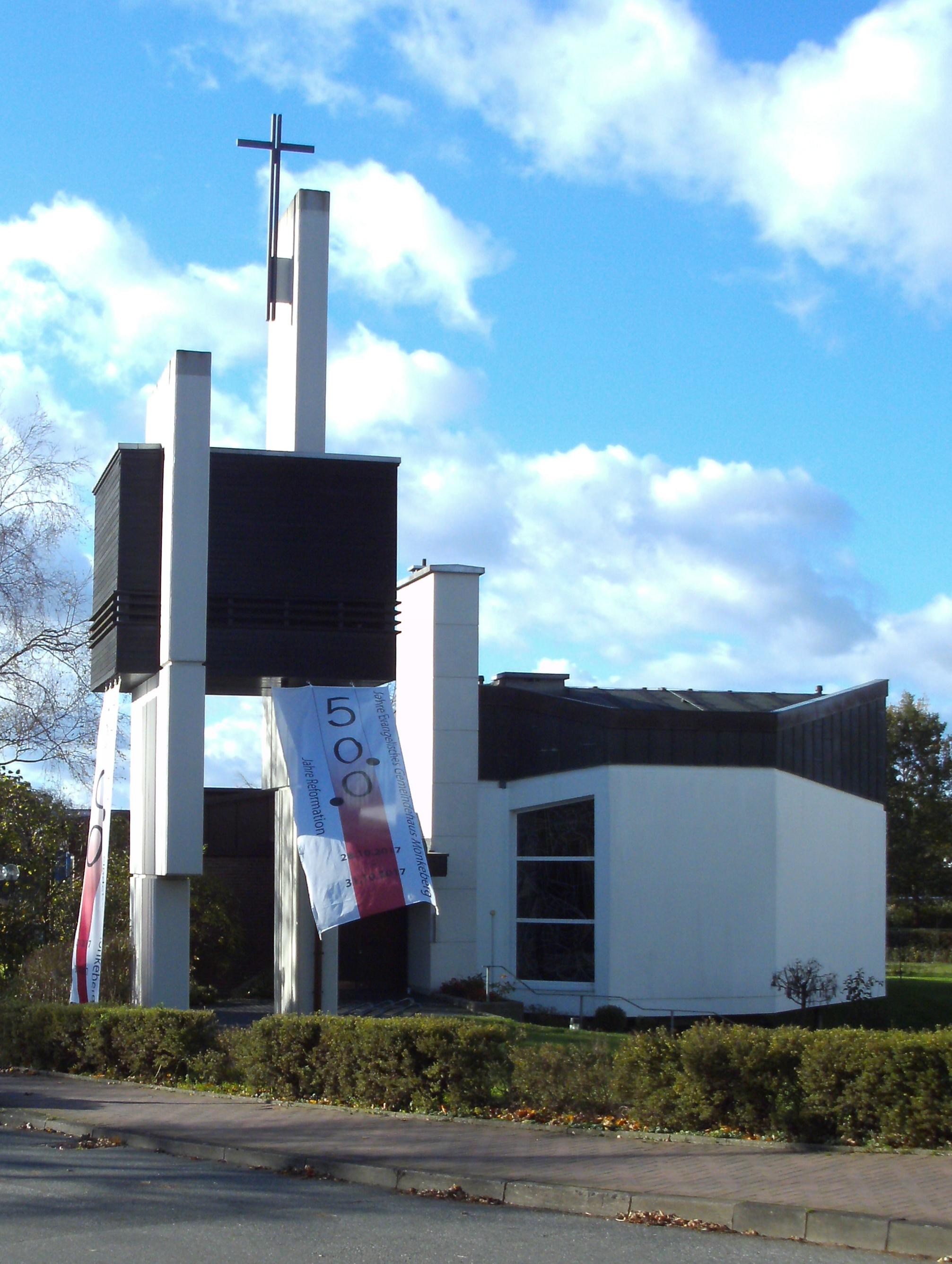 Evangelic parish hall in Mönkeberg, Schleswig-Holstein, Germany, 2017